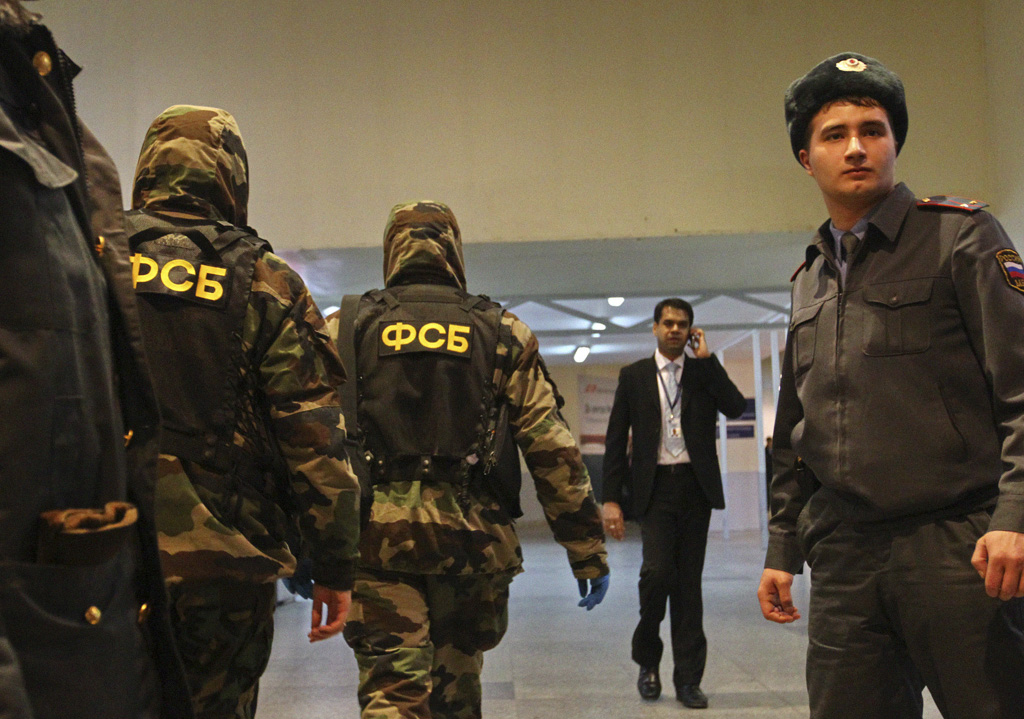 “Dozens killed in Domodedovo airport blast”. Law enforcement officers guard the entrance to Domodedovo airport as part of increased security measures following the deadly blast.